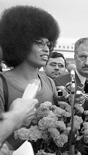 Angela Davis in Moscow in 1972